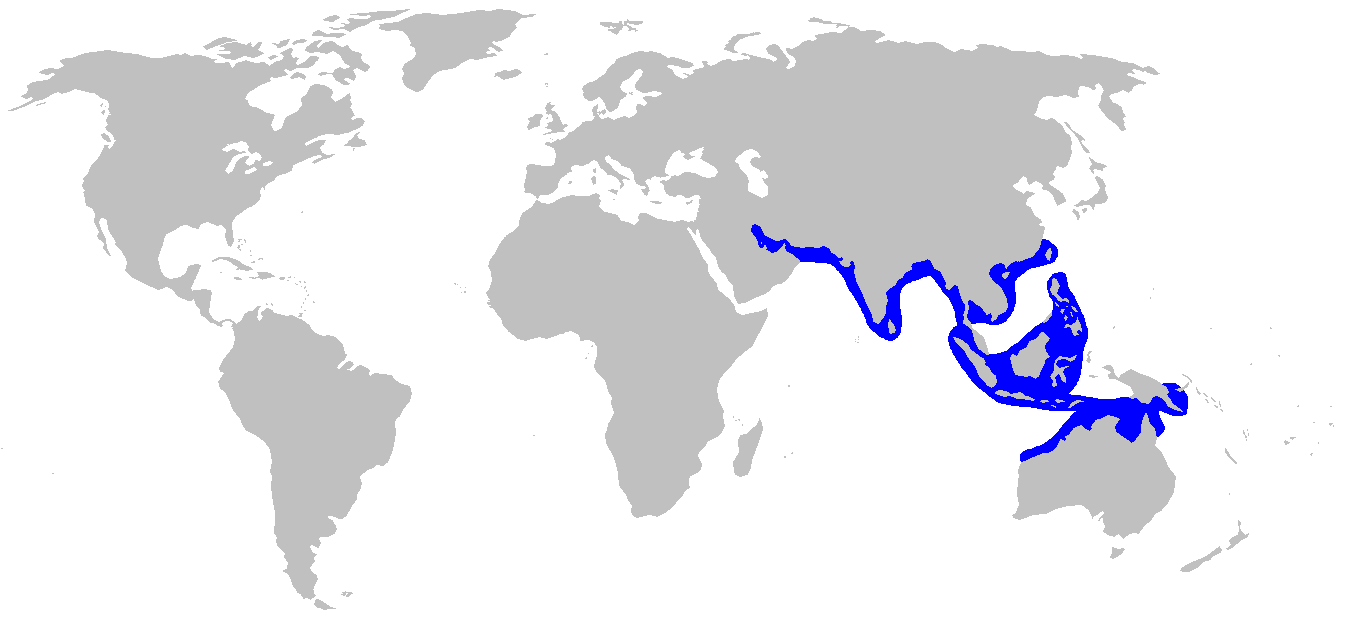 Distribution map for Eusphyra blochii, based on Last, P.R.; Stevens, J.D. (2009). Sharks and Rays of Australia (second ed.). Harvard University Press. p. 288.